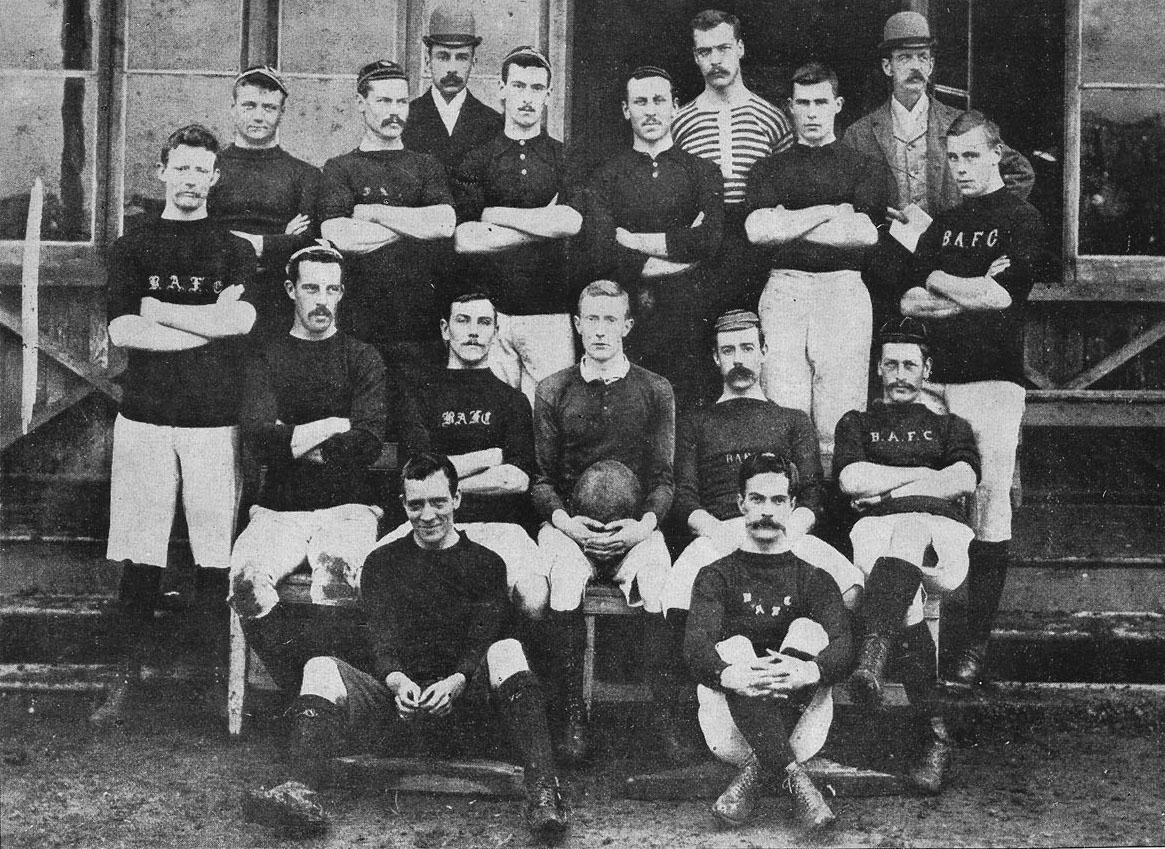 Argentine rugby pioneer Buenos Aires Football Club in 1891. (From left to right): Up: R. Anderson, F. Jacobs, F. Bennett, F. Tucker, L. Corry-Smith (also first president of Argentine Rugby Union), G. Anderson, J. Leitch, F. Jones, unknown player and M. Gilderdale. Middle: C. Webster, F. Steed, Adam Goodfellow (captain), A. Lace, unknown player. Down: J. Findley and R. Baikie. The club would later merge with Buenos Aires Cricket Club to form "Buenos Aires Cricket & Rugby Club", more precisely in 1951.